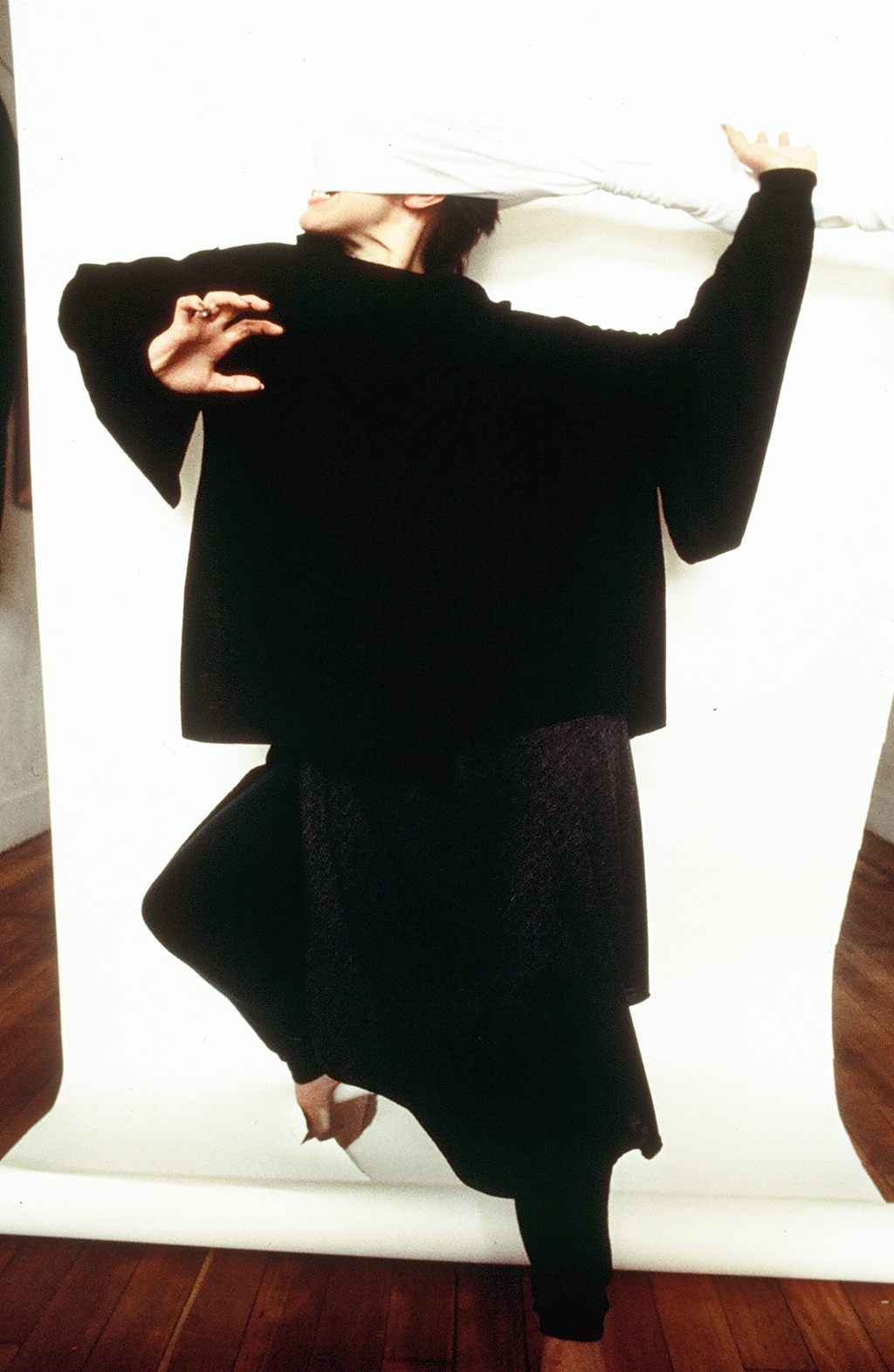 Modern fashion photograph of a barefoot woman in asymmetrical black outfit in a dynamic pose with teeth biting white cloth wrapped across face and hands in the air by taken by Italian American Swedish photographer Victor Arimondi in San Francisco, 1981.